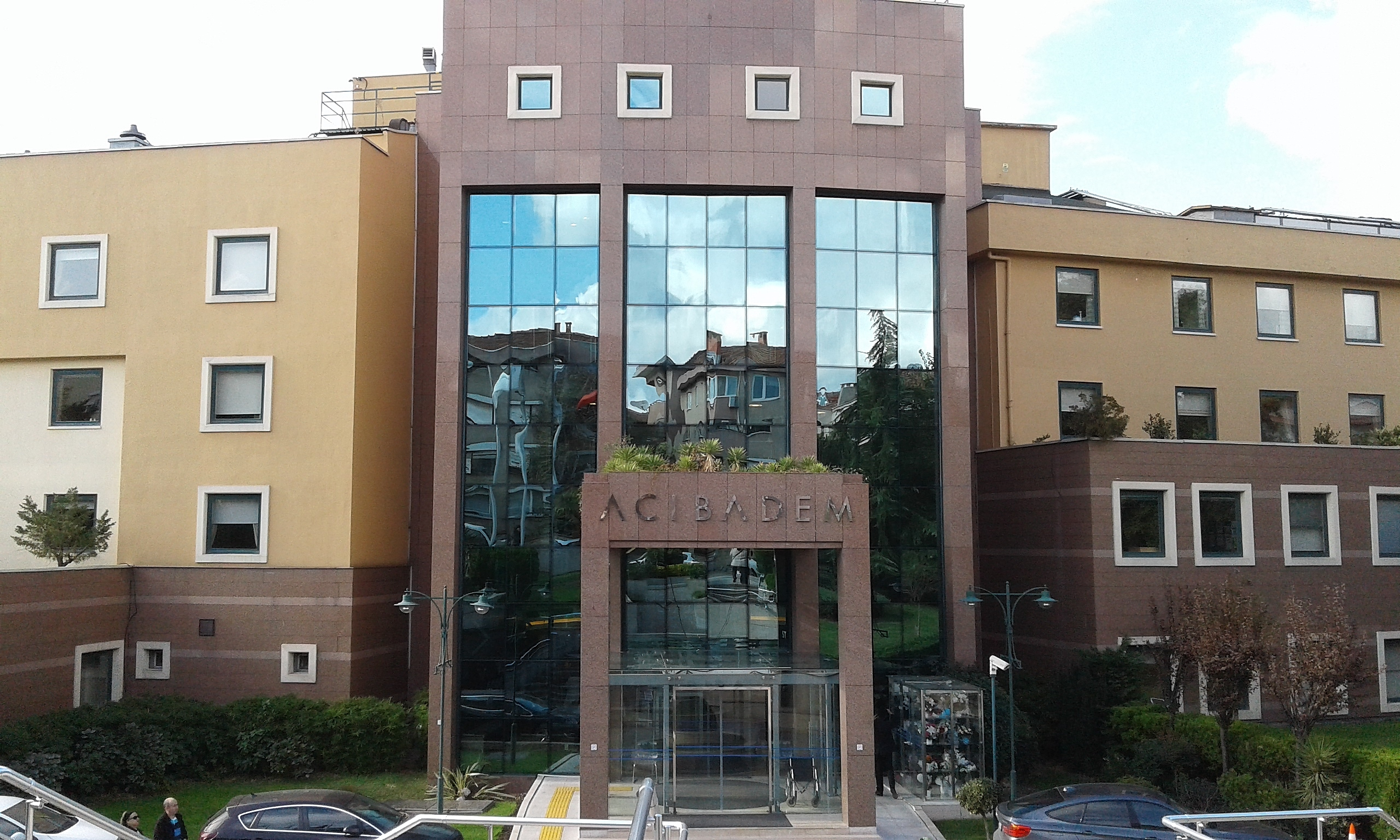 Acıbadem Hospital in Kadıköy, Istanbul, Turkey